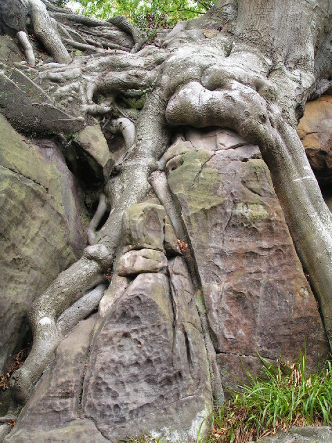 Biological weathering, Harrison Rocks.